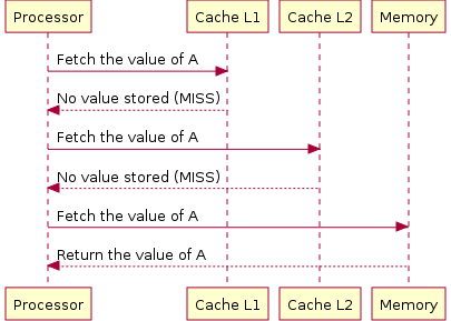 Data A is in the memory